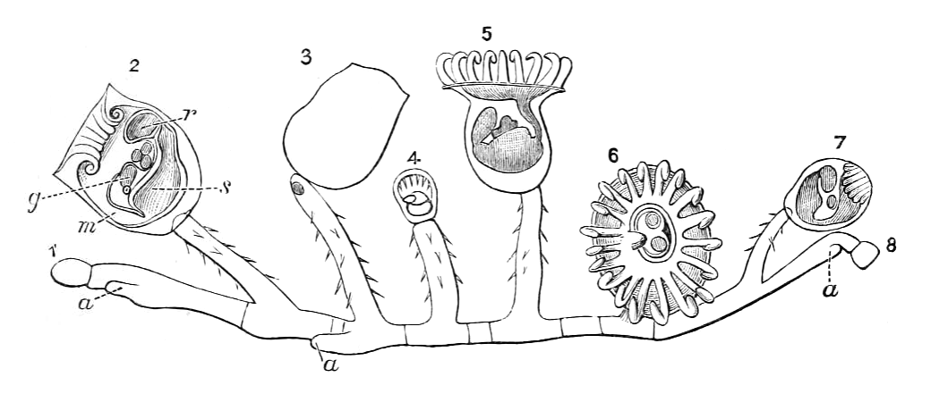 Pedicellina cernua (Pallas, 1774) from Guernsey, a British Crown dependent island in the English Channel. Entire colony ×27. The colony has three growing ends – a; 1–8 – individuals of colony; 1 and 8 are quite immature; 7 is still young, tentacles retracted; 2 is seen in longitudinal section; g – generative organ, and below it the ganglion; m – mouth; r – rectum; s – stomach; between g and r are three embryos in the brood-pouch; the tentacles are retracted; in 5 and 6 the tentacles are expanded; in 6 two embryos are seen within the circle of the tentacles, to the left of them is the rectum, and to the right the mouth; 3 is in the act of losing its calyx, and has already developed the beginning of a new polypide-bud; in 4 the primary calyx has been lost, and the new calyx is clearly marked off from the stalk.